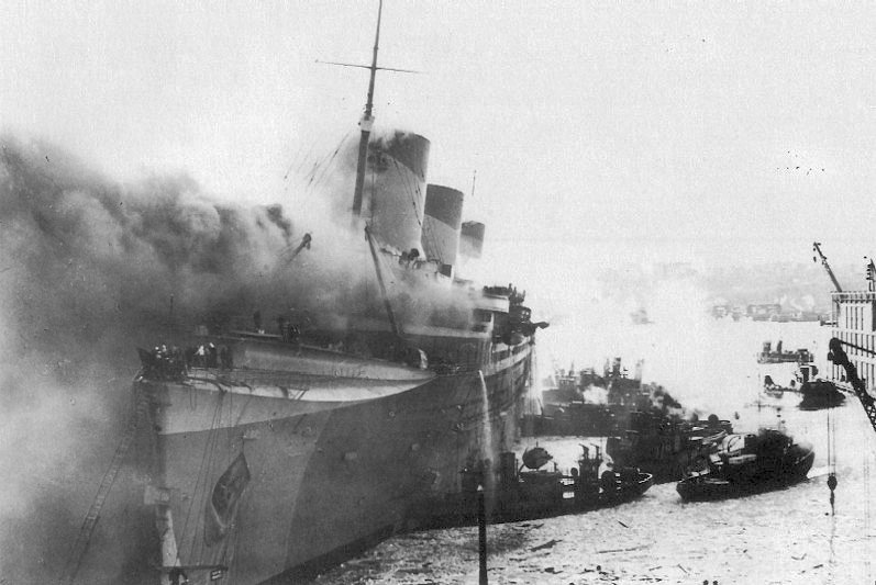 Lafayette (AP-53) after catching fire at New York harbor.